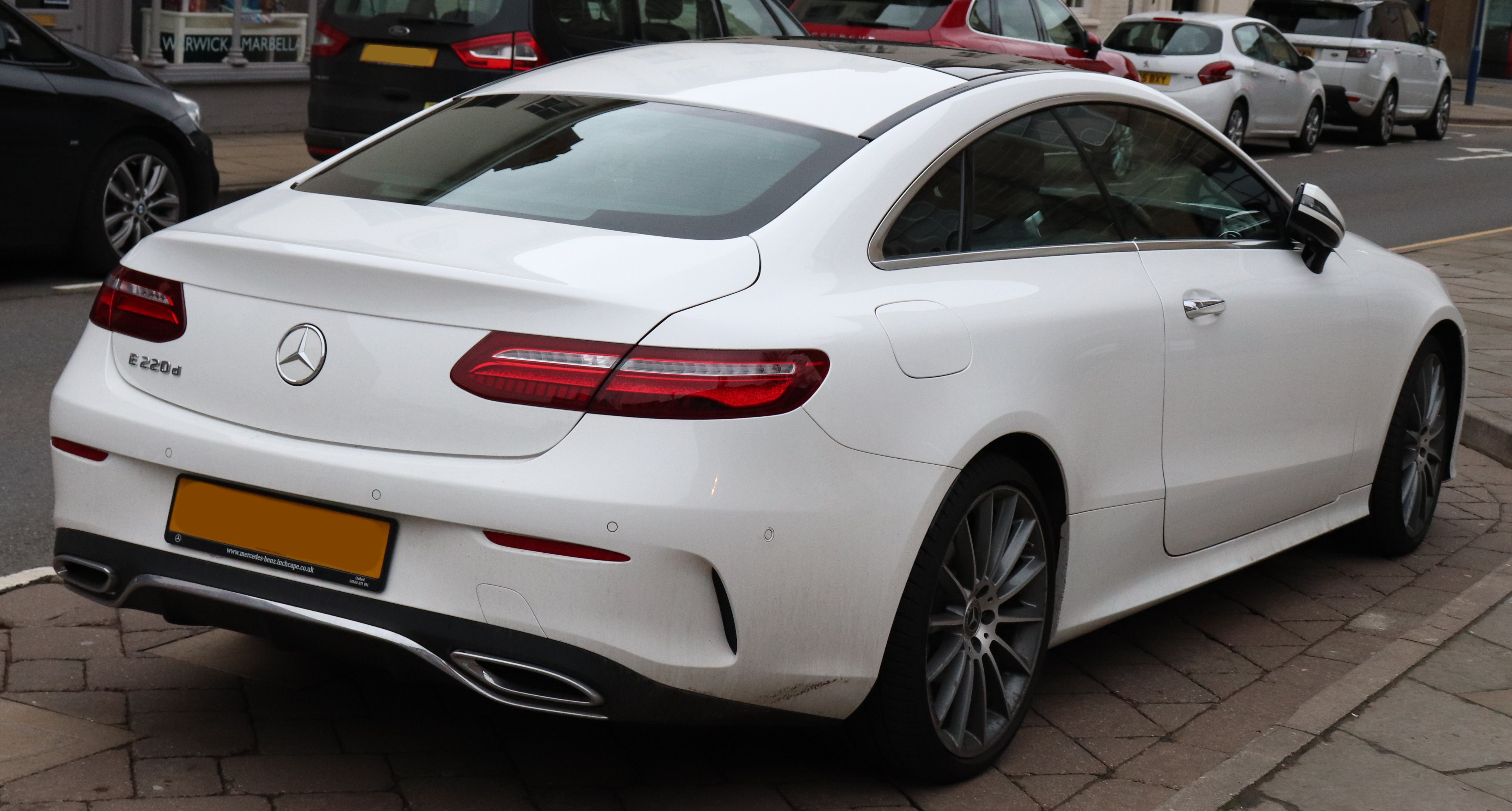 2017 Mercedes-Benz E220d AMG Line Premium+ 2.0 Rear Taken in Warwick